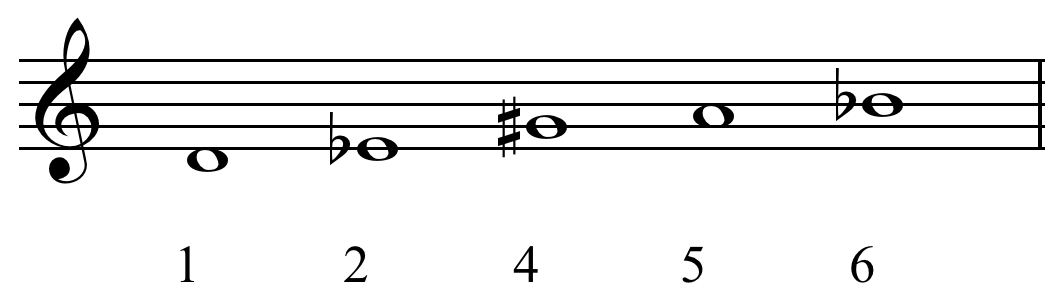 Pelog bem 'subdivision'. "The representations of slendro and pelog tuning systems in Western notation shown above should not be regarded in any sense as absolute. Not only is it difficult to convey non-Western scales with Western notation, but also because, in general, no two gamelan sets will have exactly the same tuning, either in pitch or in interval structure. There are no Javanese standard forms of these two tuning systems." Lindsay, Jennifer (1992). Javanese Gamelan, p.39-41. ISBN 0-19-588582-1.